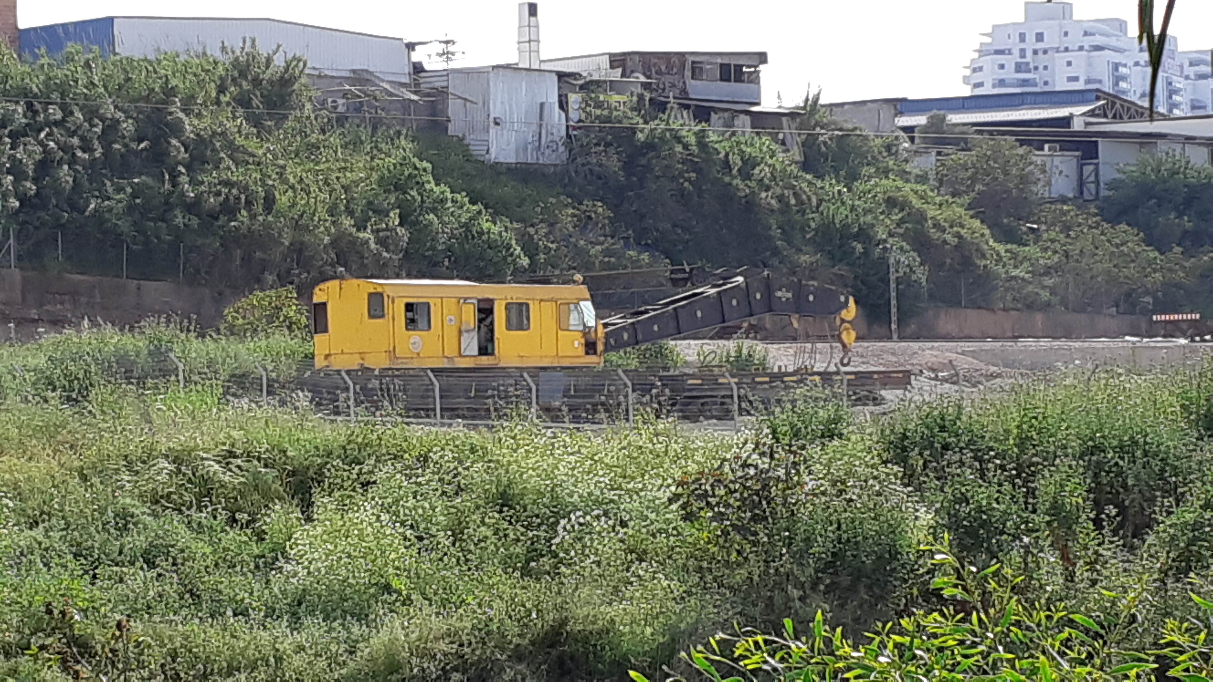 Orton 200 Ton Rail Crane of Israel Railways Beit Shemesh